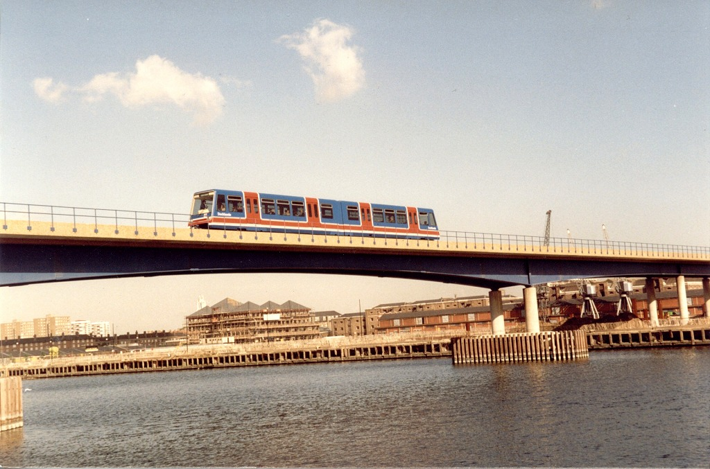 A first generation train (P86 stock) of Docklands Light Railway at West India Docks.